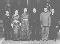 The Dalai Lama with his younger brother. Second from right is Baba Phuntsog Wangyal a Tibetan Communist.